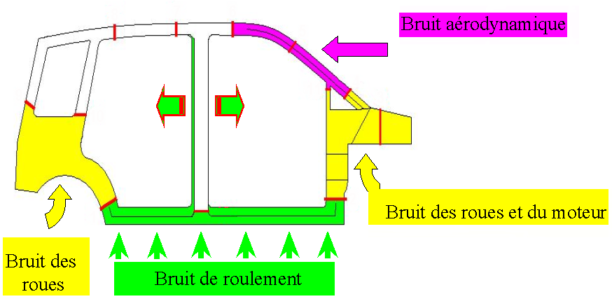 Sources of noise in a car. Noise is mainly generated by the engine (with the exhaust system), by the speed and by air conditioning.